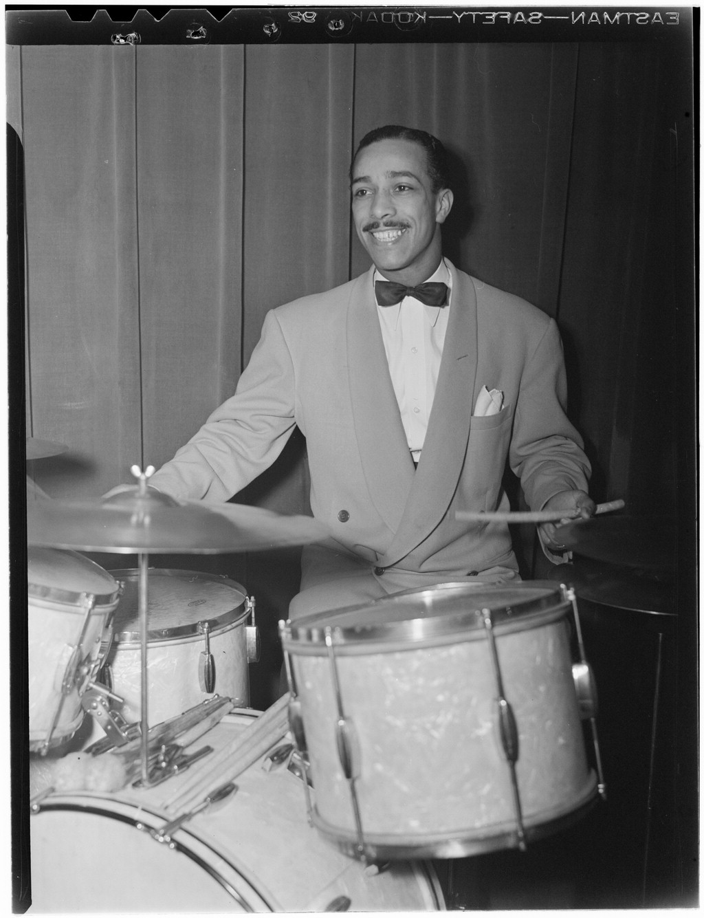 J. C. Heard